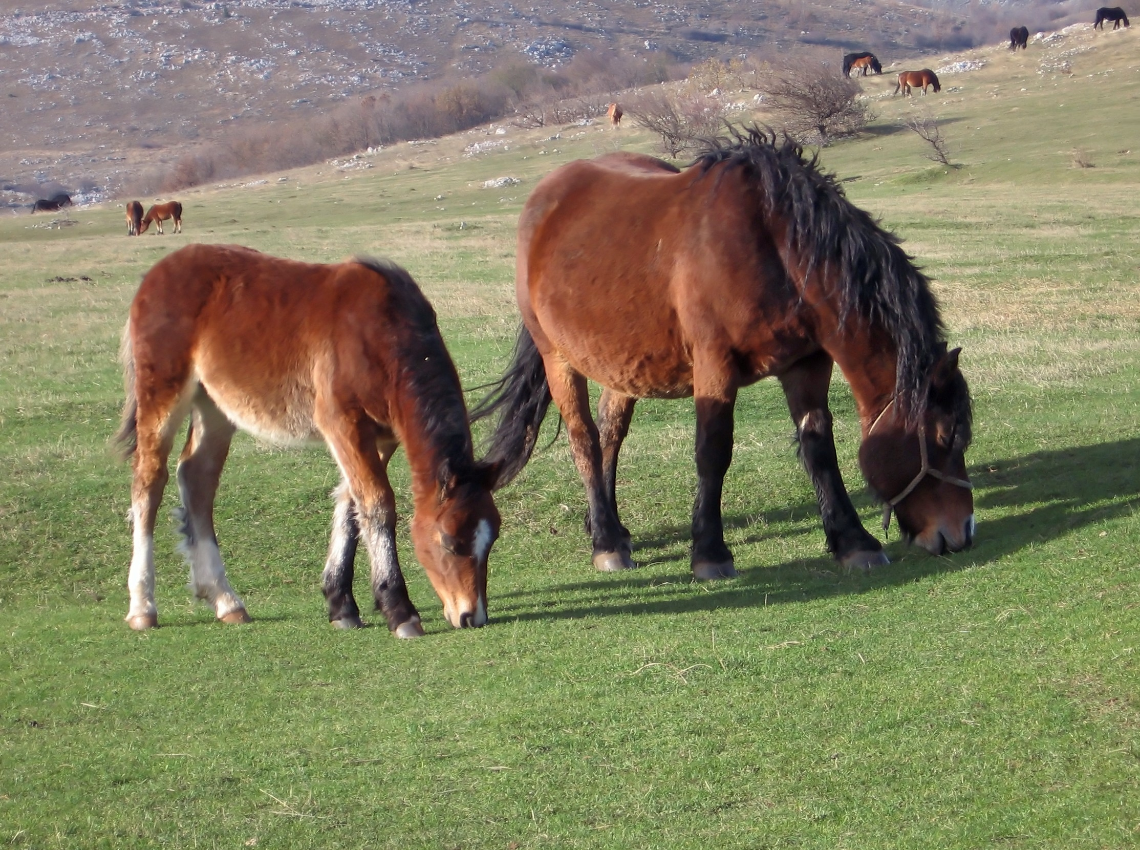 Croatian coldblood - maybe not purebred